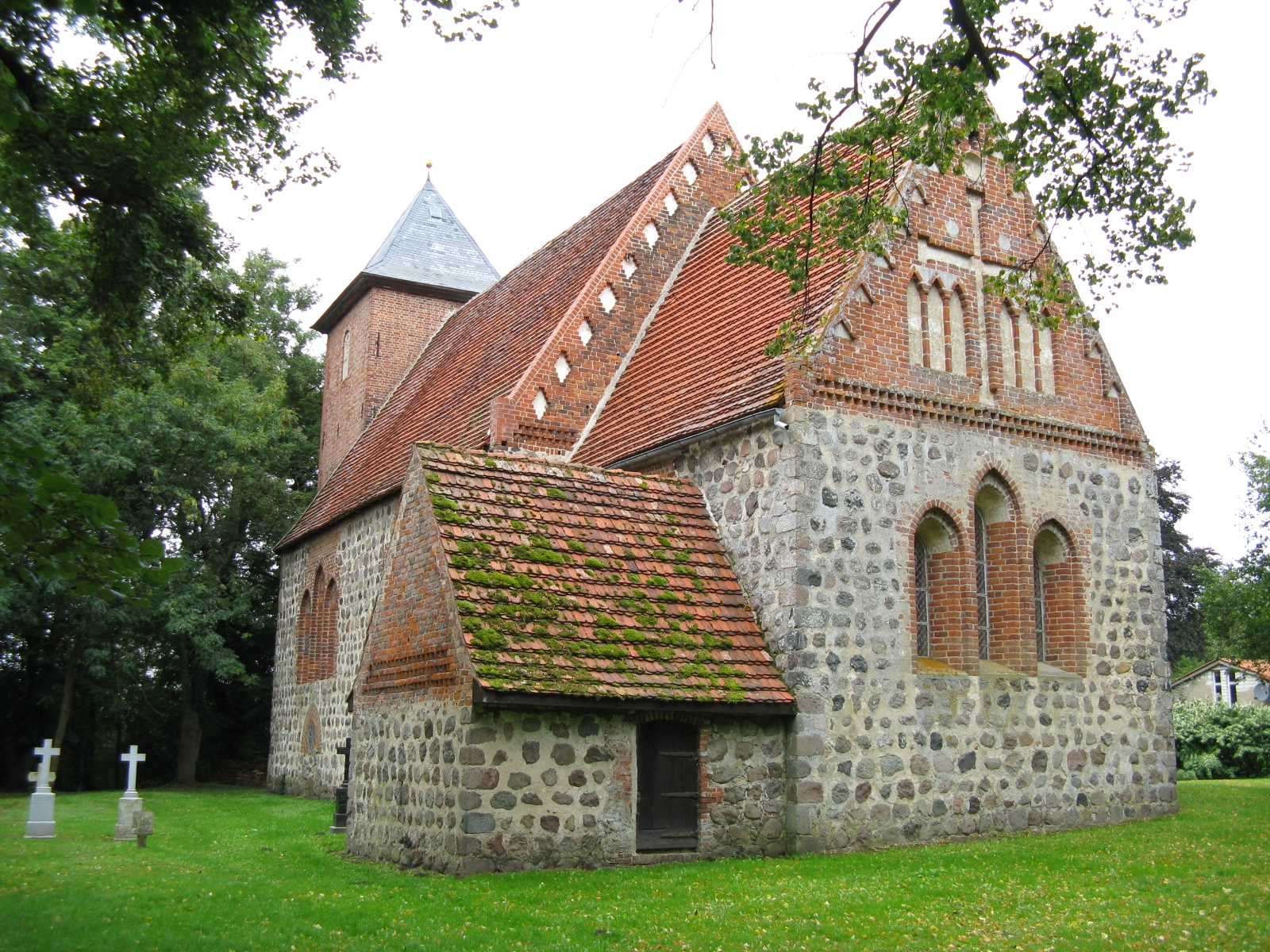 Church in Gägelow (Sternberg), Mecklenburg-Vorpommern, Germany